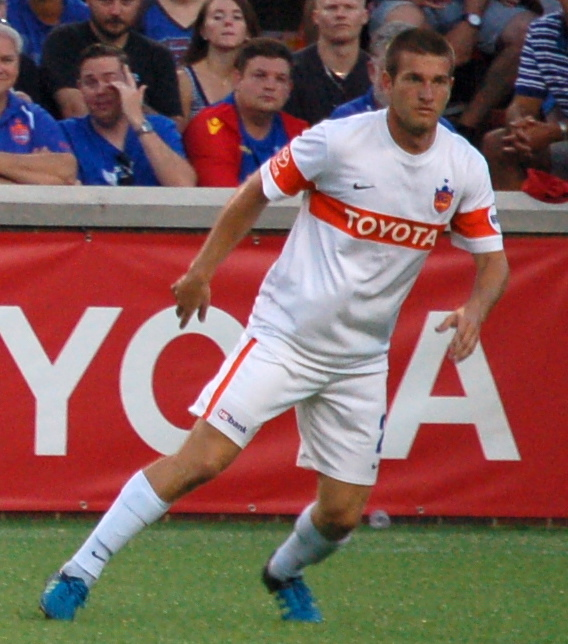 Francisco Narbón and Jamie Dell of FC CincinnatiTaken during an exhibition match between FC Cincinnati and Crystal Palace F.C. at Nippert Stadium in Cincinnati on July 16, 2016.